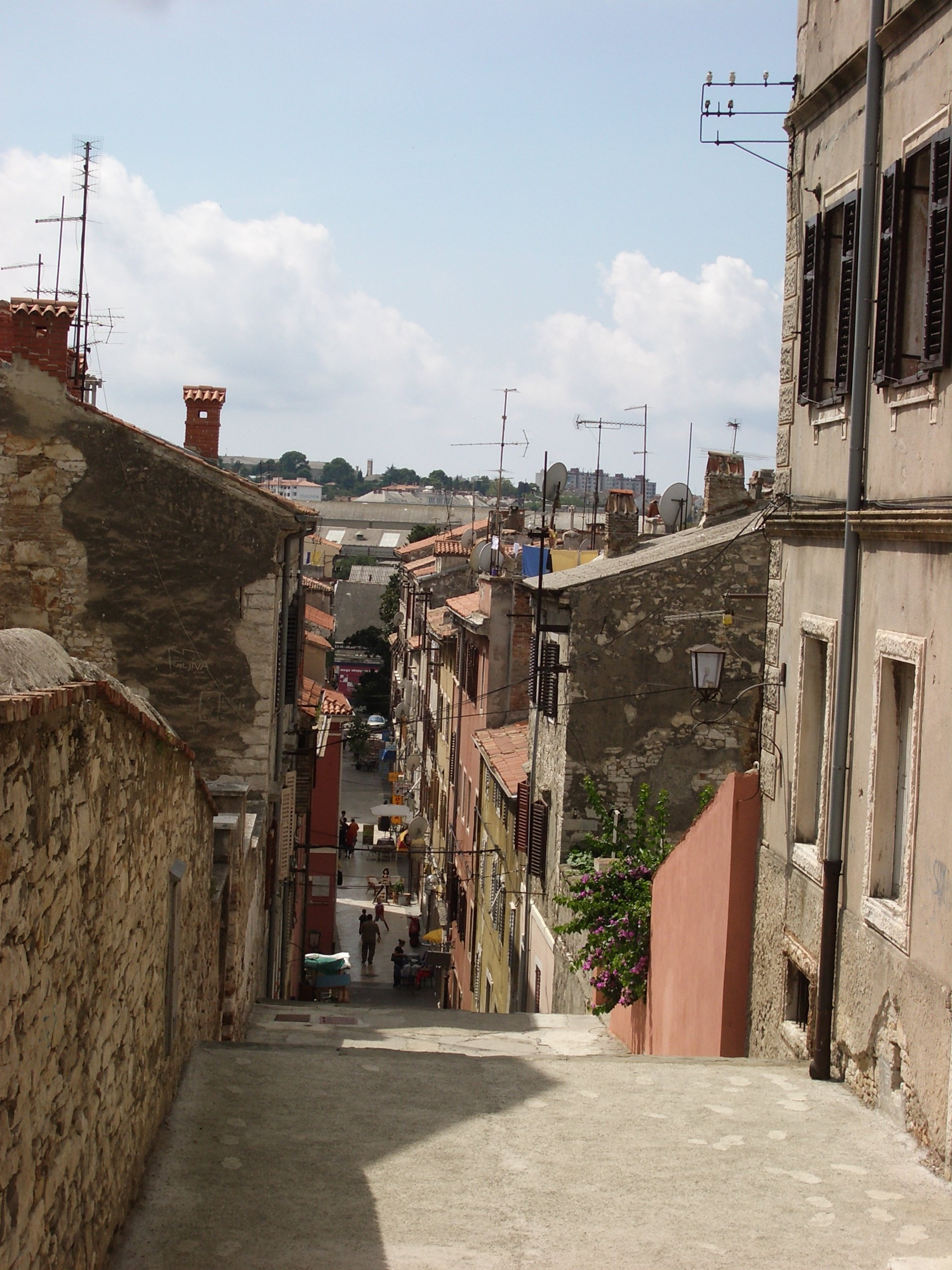 Street in Pula, the most big city of Istria, region in Croatia.